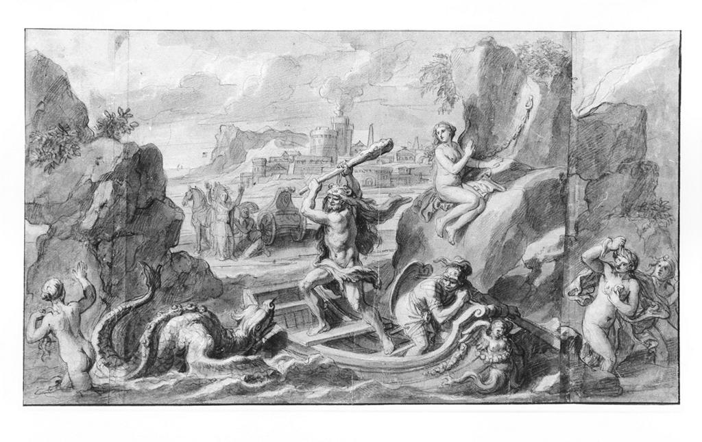 Hercules rescuing Hesione from the Sea Monster, from Scenes from the Labors and Exploits of Hercules.